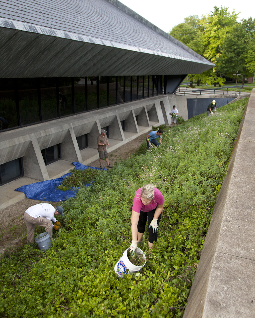 Landmark Columbus volunteer effort at North Christian Church Columbus, Indiana